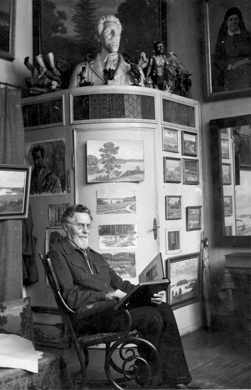 Lithuanian painter Antanas Žmuidzinavičius at home